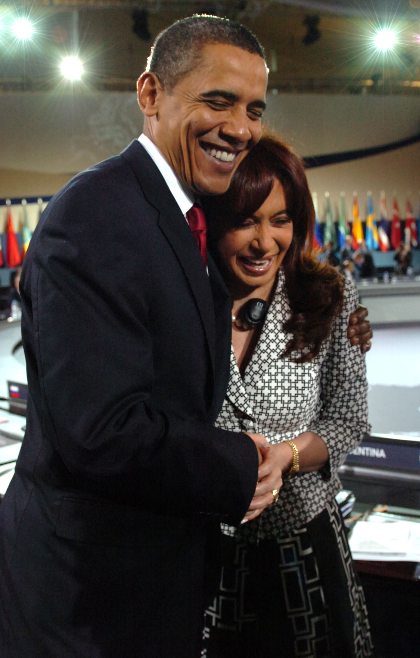 President of the United States Barack Obama and President of Argentina Cristina Fernández in 2009